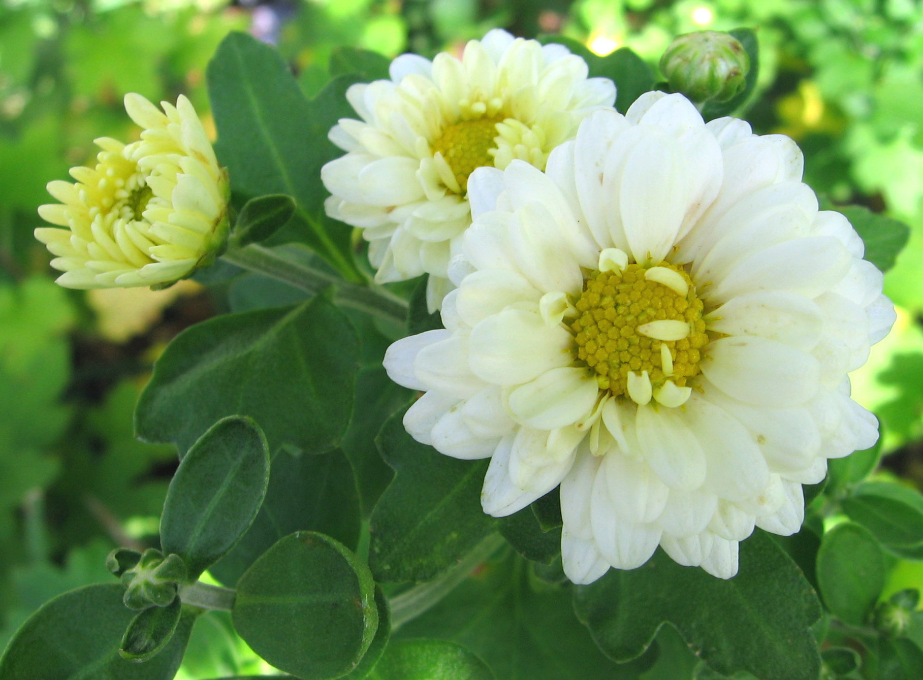 Yellow and white chrysanthemums mums